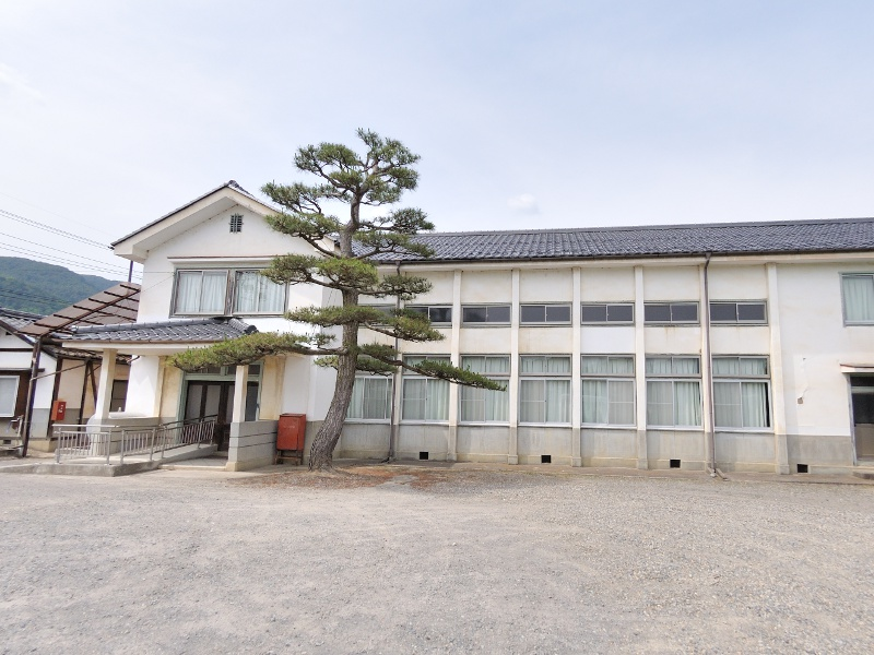 Nikoda Public Hall Building